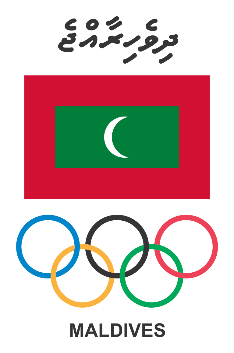 Logo of Maldives Olympic Committee